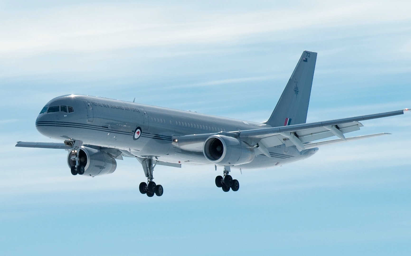 RNZAF Boeing 757 landing at Pegasus Airfield on the Ross Ice Shelf during its maiden flight to Antarctica